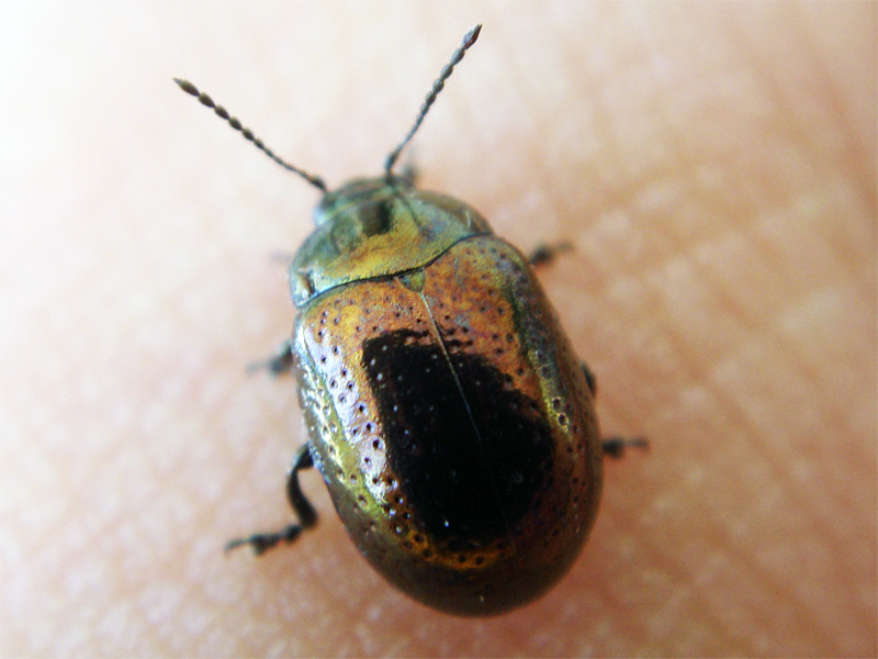 Chrysolina hyperici in Ansião, Leiria, Portugal